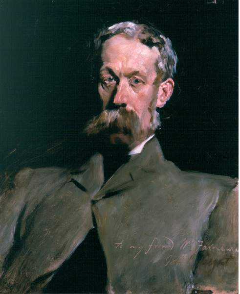 Dr. Robert Farquharson of Finzean (1875-1899) Aberdeen Art Gallery and Museums, UK Oil on canvas 61.4 x 51.2 cm Acc. No. ABDAG003877 Jpg: Aberdeen Art Gallery and Museums